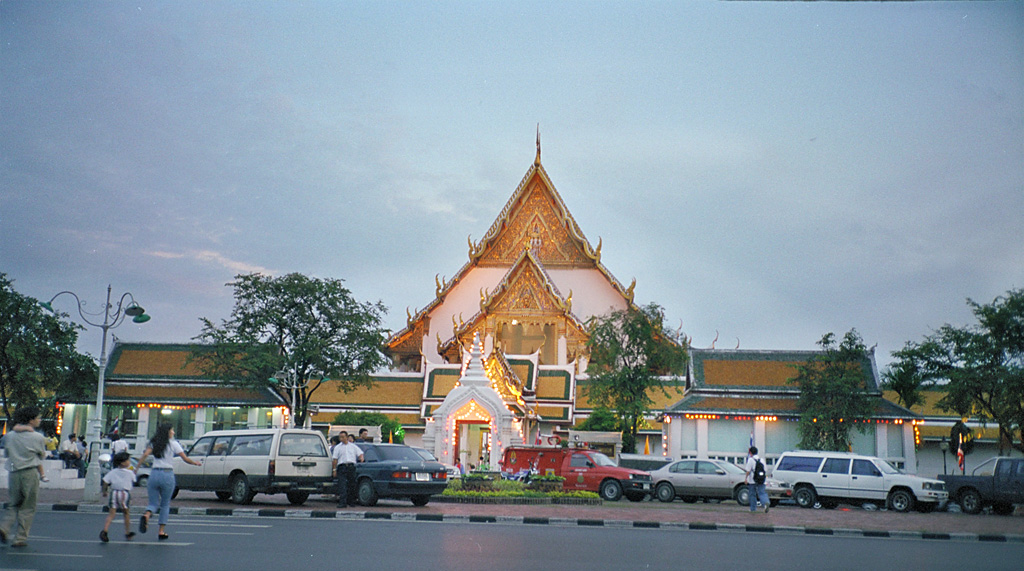 The night of Visakhapuja at Wat Suthat, Bangkok, Thailand